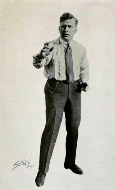 American director Thomas H. Ince, on page 147 of Peter Milne, Motion Picture Directing; The Facts and Theories of the Newest Art (1922).